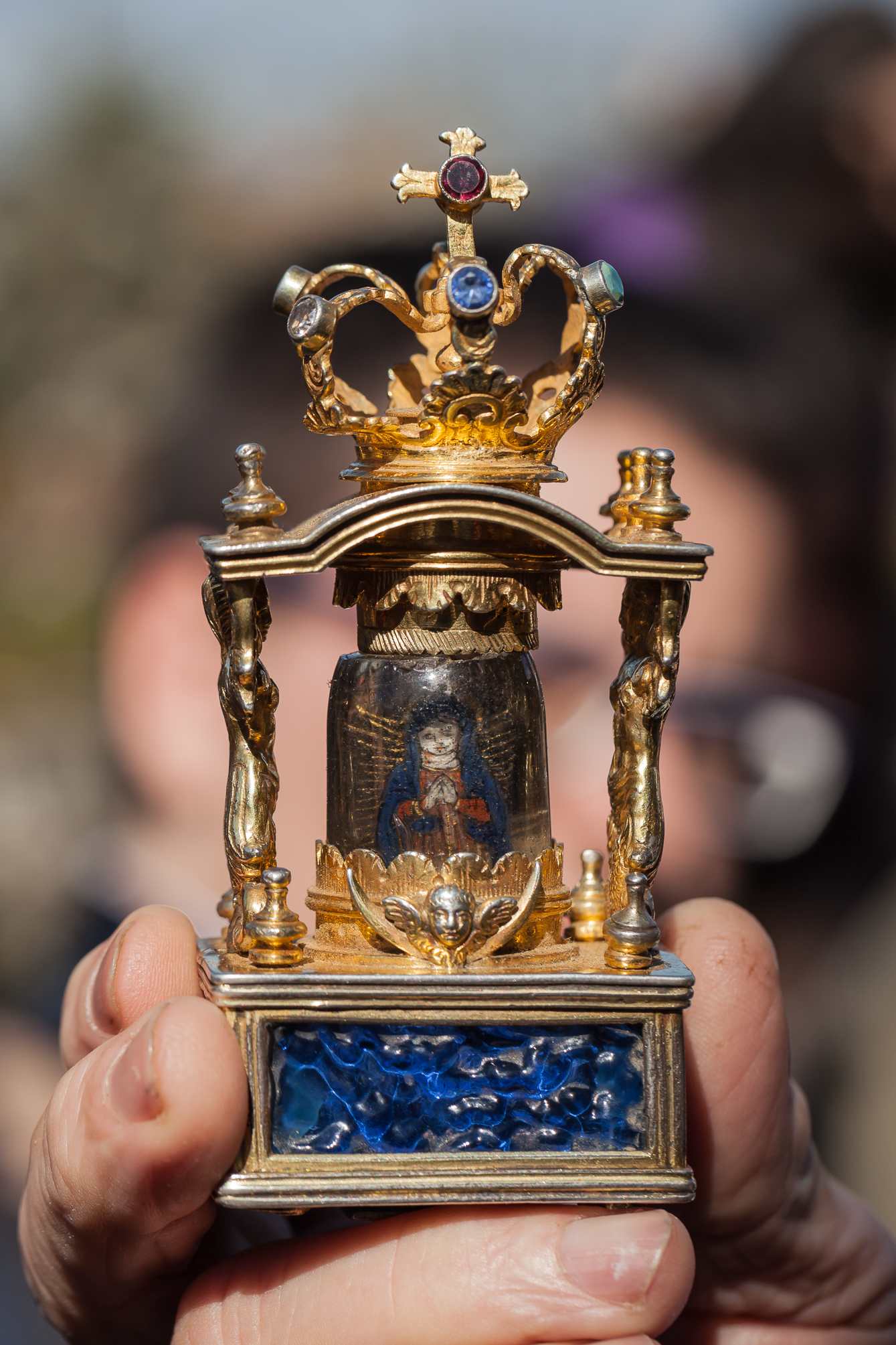 The Glass Virgin, Vilanova dos infantes, Celanova, Galicia (Spain)